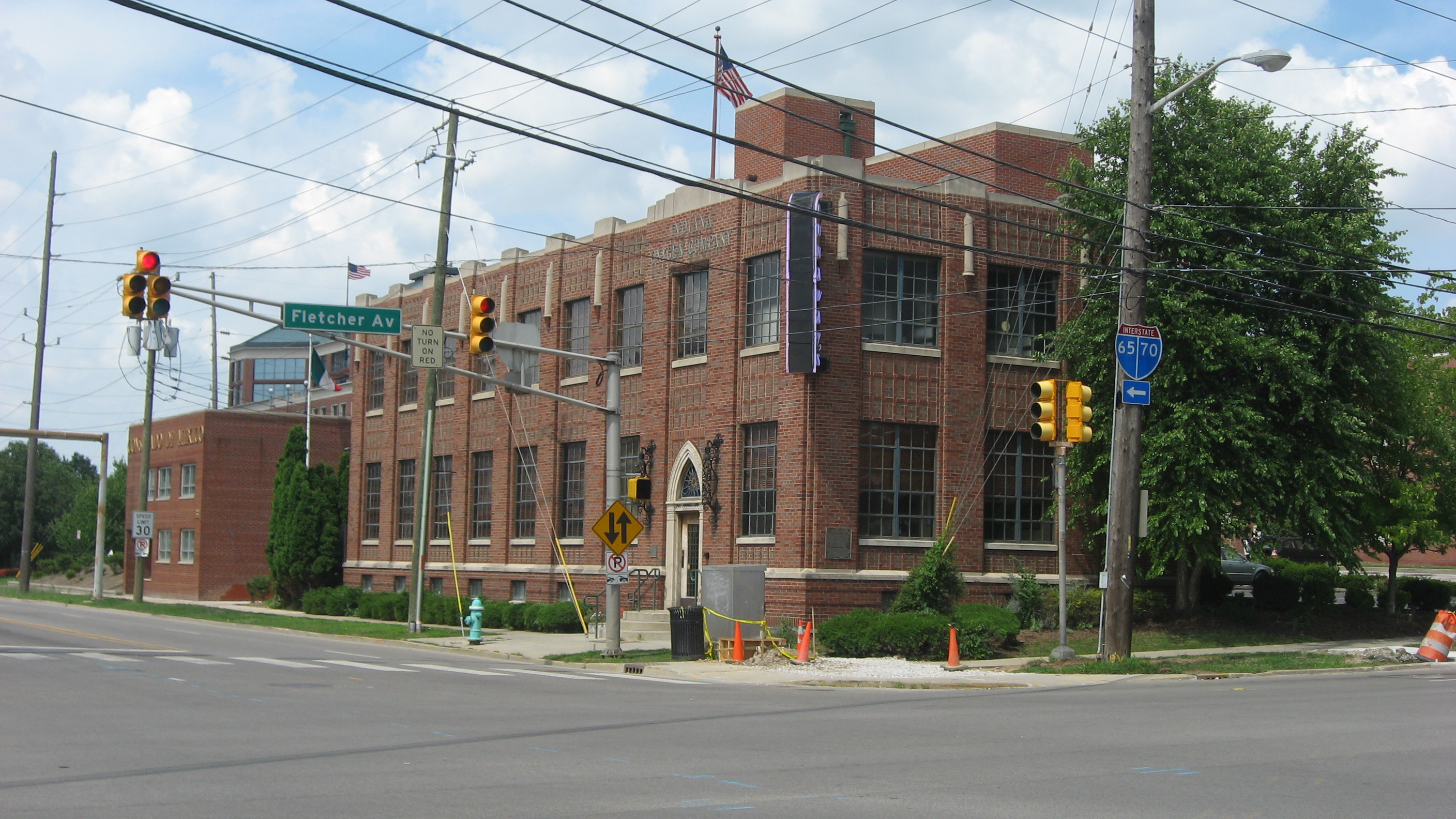 Front and southern side of the Indiana Oxygen Company, located at 351 S. East Street in Indianapolis, Indiana, United States. Built in 1930, it is listed on the National Register of Historic Places.